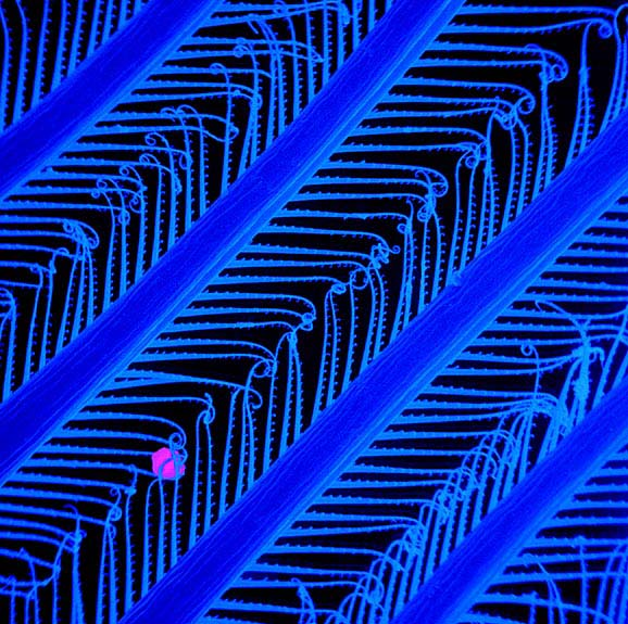 filter mesh of antarctic krill gfdl by uwe kils